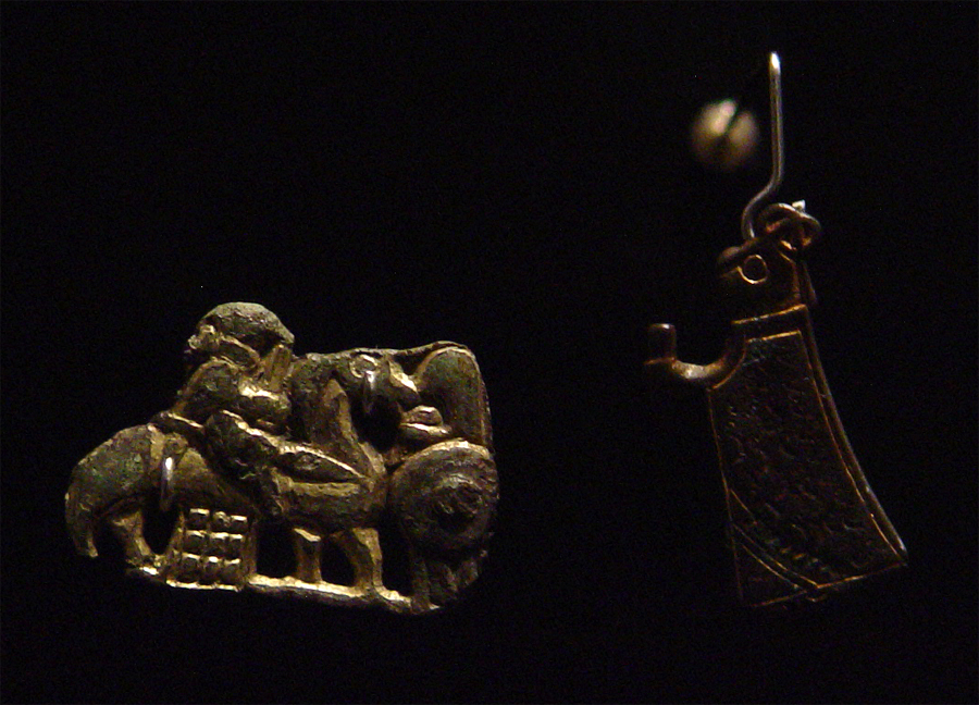 Two metal figures on display at the National Museum of Denmark. The object on the left shows a figure on a horse facing an figure with a shield, closely corresponding to another object in the museum File:Silver figure with hair and silver figure with horse.jpg. On the right, a figure presents forth an object, and is one of a number of silver objects in a similar style found throughout Scandinavia, usually held to depict valkyries or dísir. The caption for the objects says provided by the museum says "small gilt pendants show Odin's female helpers, the Valkyries."